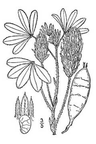 The leaves, flower, and tubers of Psoralea Esculenta also known as Pediomelum esculentum and the Prairie Turnip